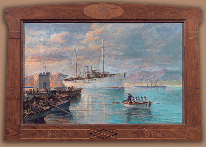 Arrival of m/v Amfitriti to Piraeus port, with the body of dead King of Greece, George-I